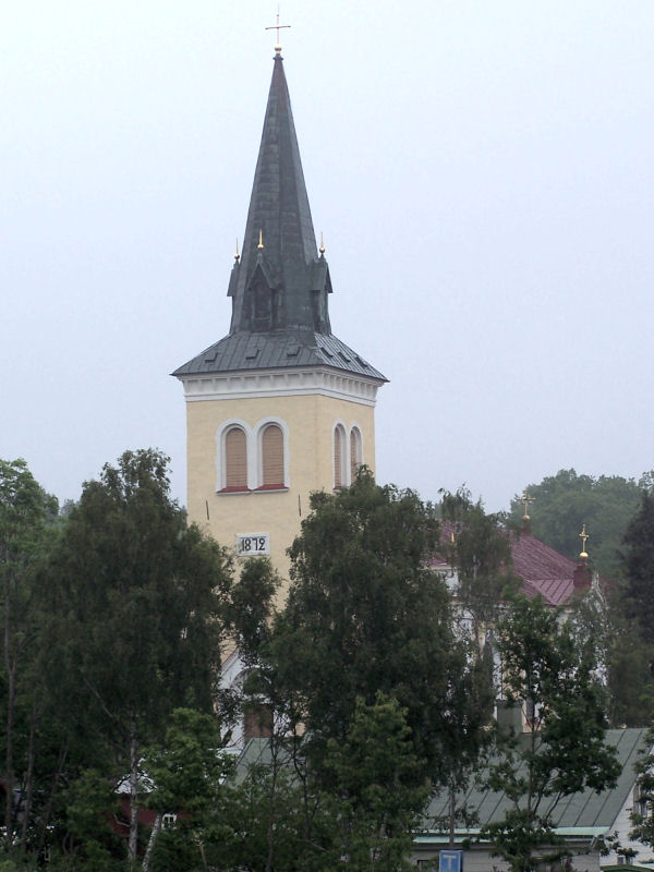 Åryd church, Åryd parish